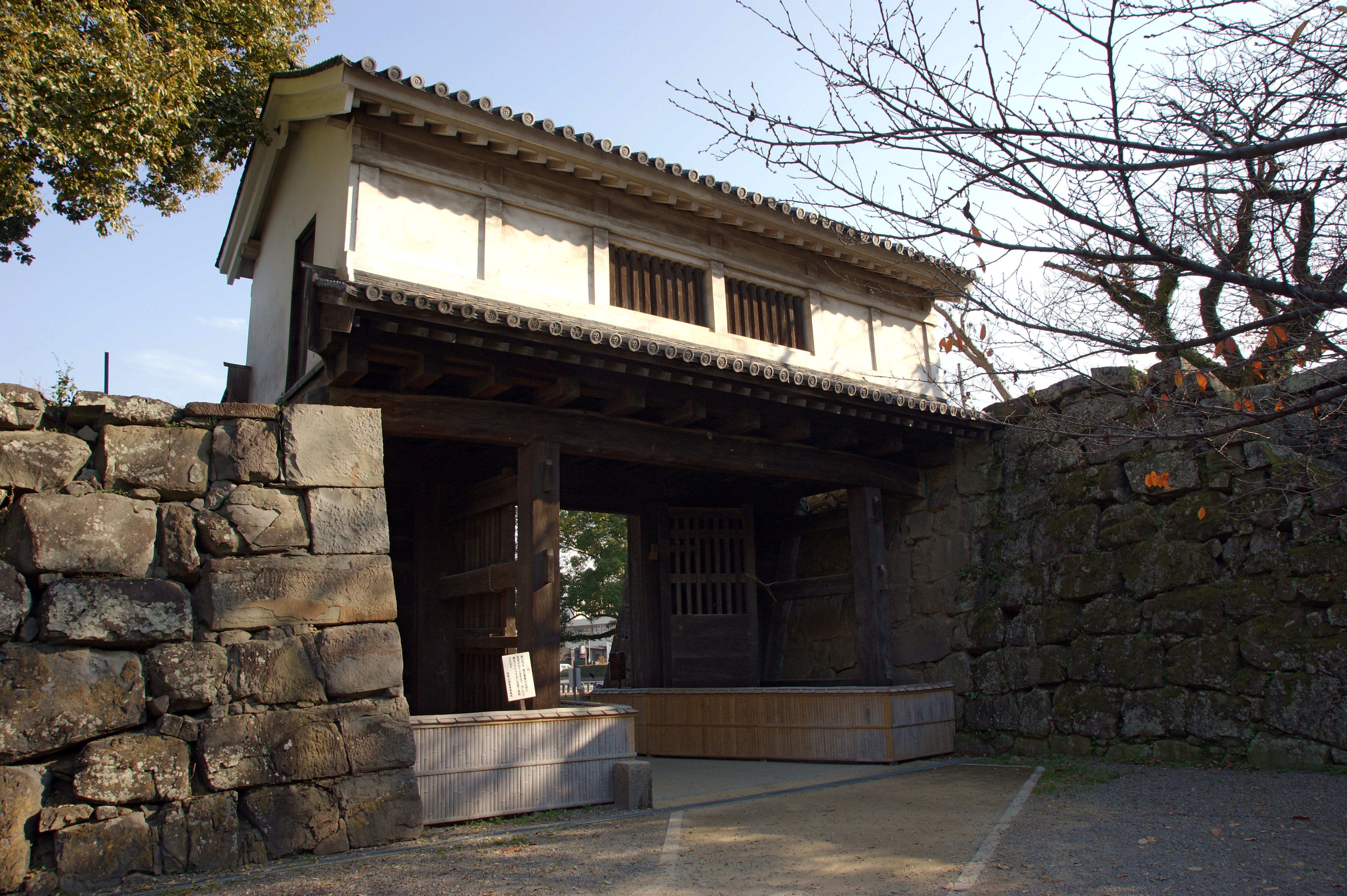 Wakayama Castle, Wakayama, Wakayama prefecture, Japan